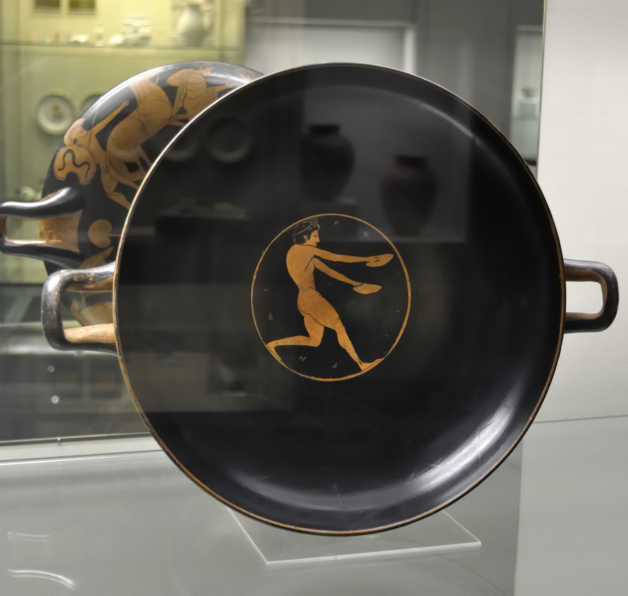 Picture taken in Hetjens-Museum Düsseldorf before Duisburg summer meetup 2010.